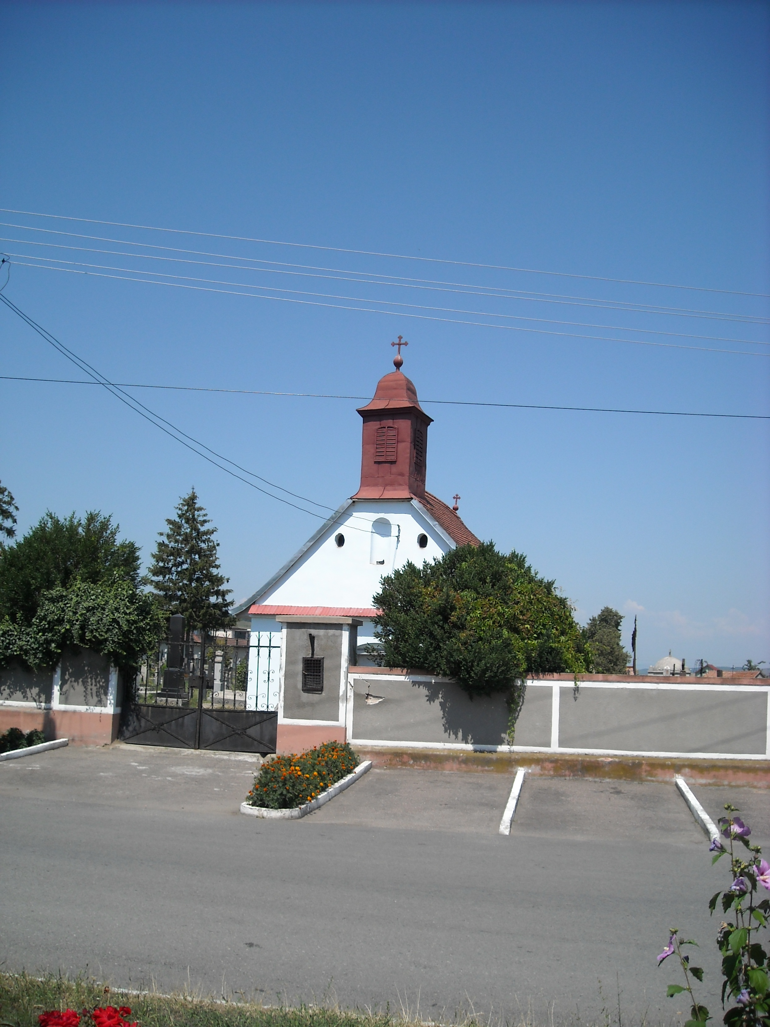 the chapel of the Gherla prison